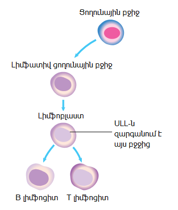 Diagram showing the cell that ALL starts in CRUK 295